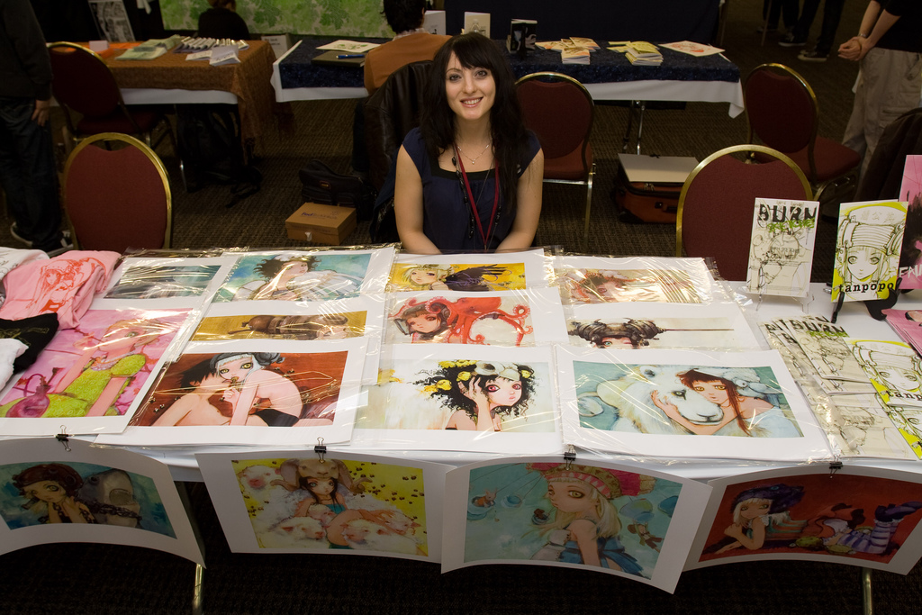 Camilla d'Errico photographed at Stumptown Comic Festival 2007 by Joshin Yamada (oceanyamaha)